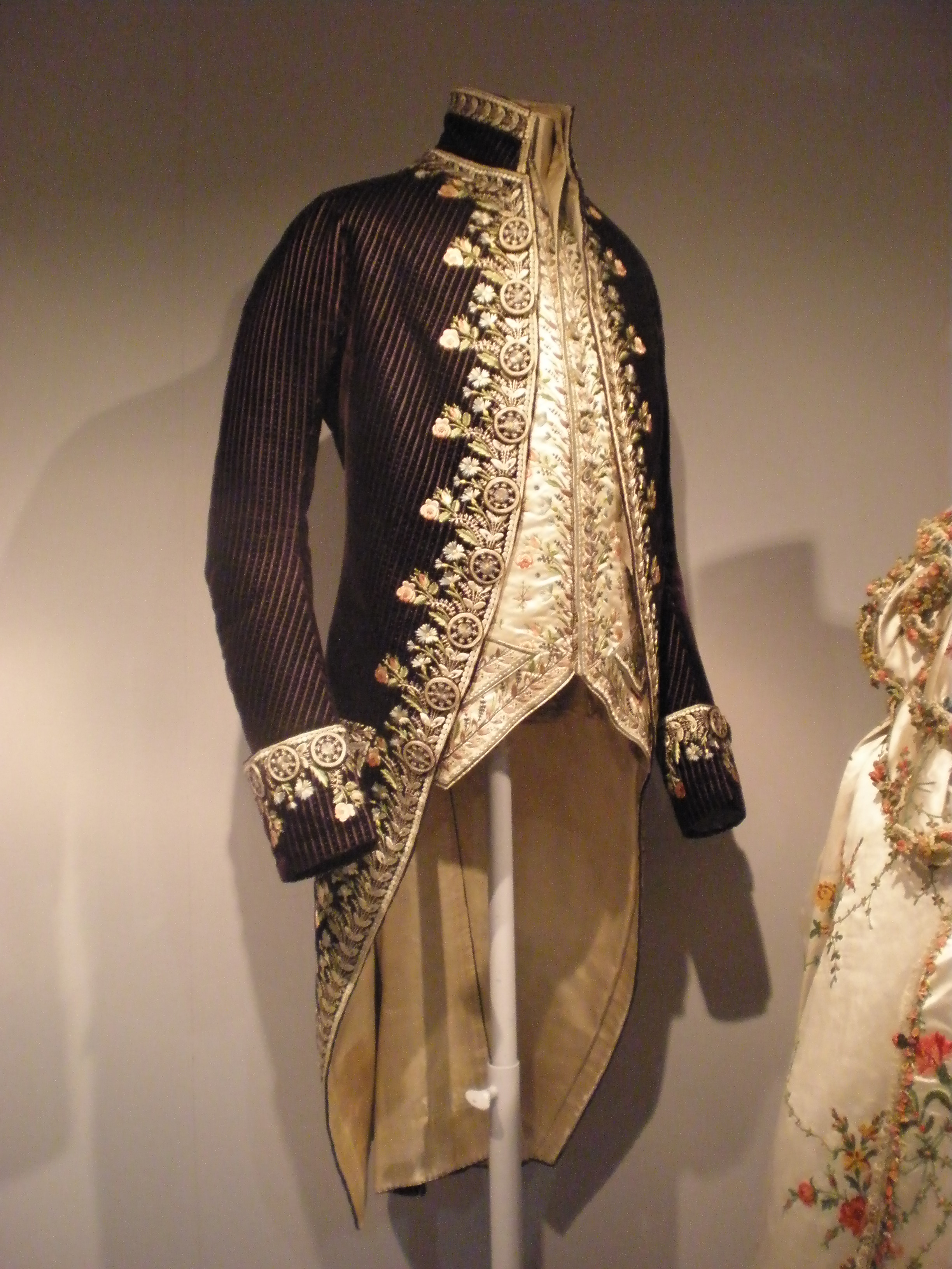 Man's Court Coat and Waistcoat About 1800 Britain or France Embroidered velvet and satin Men's Court dress was conservative in cut and decoration. By this period, rich fabrics and embroidery were no longer part of fashionable menswear. The standing collar, curving coat fronts and longer waistcoat style are also old fashioned, a survival from the 1770s. Collection ID: T.29A&10-1910 This photo was taken as part of Britain Loves Wikipedia in February 2010 by David Jackson.